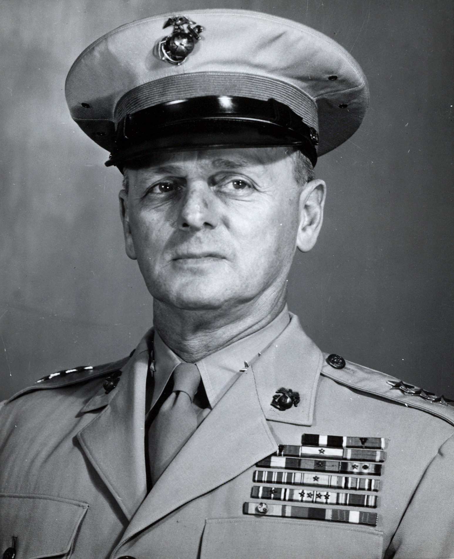 Franklin A. Hart, USMC (then-Lieutenant General); Commanding General, Fleet Marine Force, Pacific Author: United States Marine Corps (public domain) Source: Official Marine Corps biography, Who's Who in Marine Corps History, United Sates Marine Corps. URL: (retrieved 2006-02-24